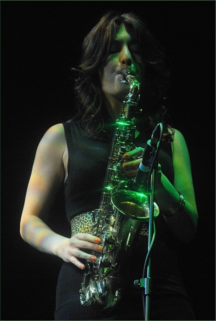 Taken at Pacific Road Arts Centre, Woodside, Birkenhead, Wirral. Think Floyd are, well obviously, a tribute to Pink Floyd. I've seen Australian Pink Floyd (strangely enough in Wirral as well - New Brighton) and Think Floyd were equally as good. The band members are Steve (drums), Lewis (Bass), Richard (lead Guitar) and Robert (Korg) I managed to get a good view (due to a private arrangement), in front of the main barrier so I could move about and get some half decent shots. This also gave me the advantage of using an SLR, which if anyone has ever been to a concert before with a camera, will know how difficult it is to "sneak one in". Thanks for looking. All comments and very welcome indeed. Cheers, Andrew.